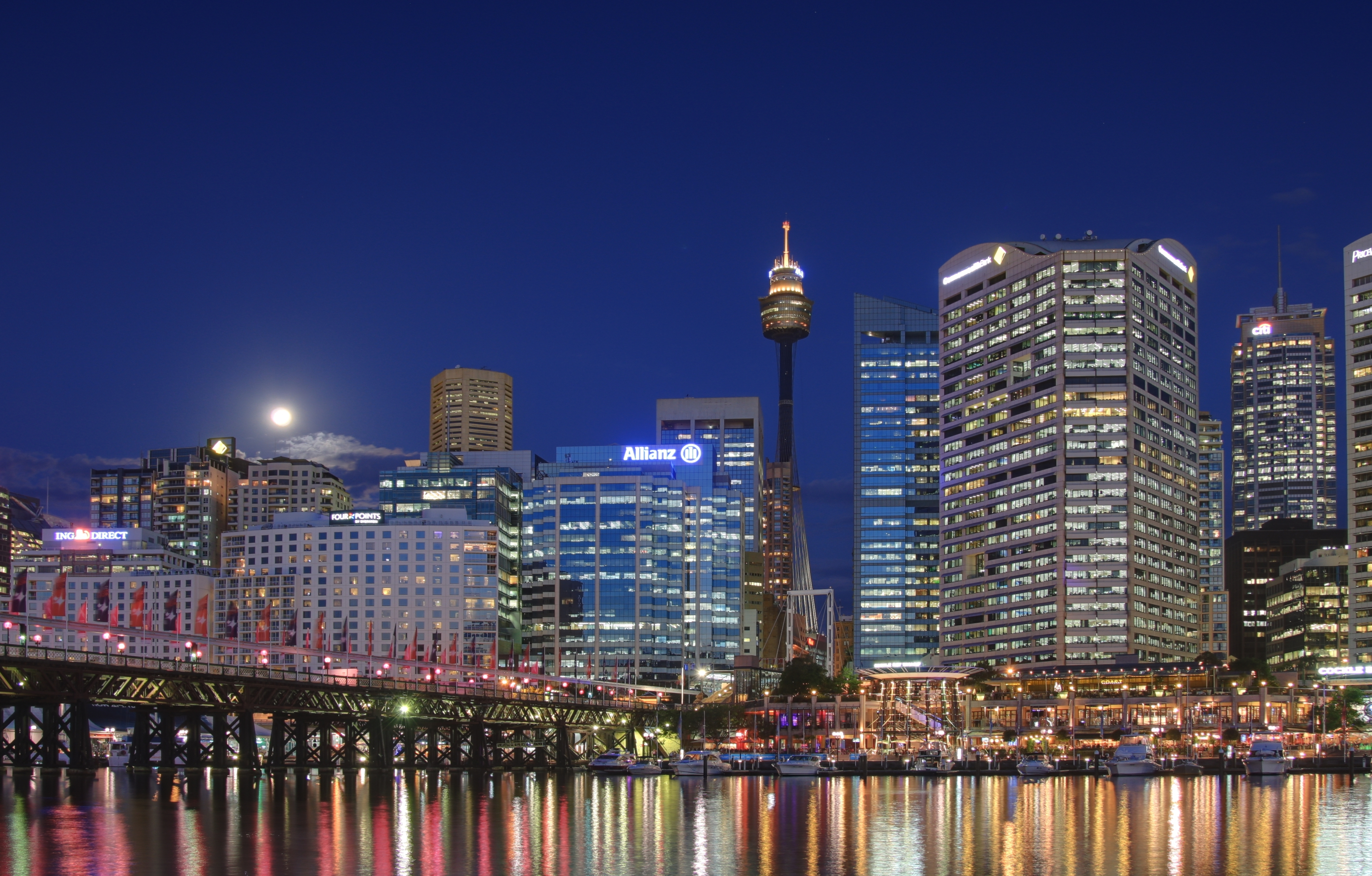 Sydney from Darling Harbour